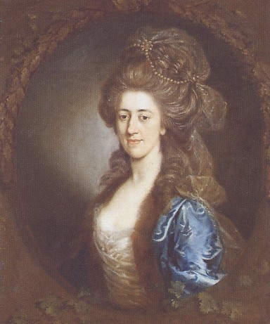 Johanna Sieveking, wife of Georg Heinrich Sieveking